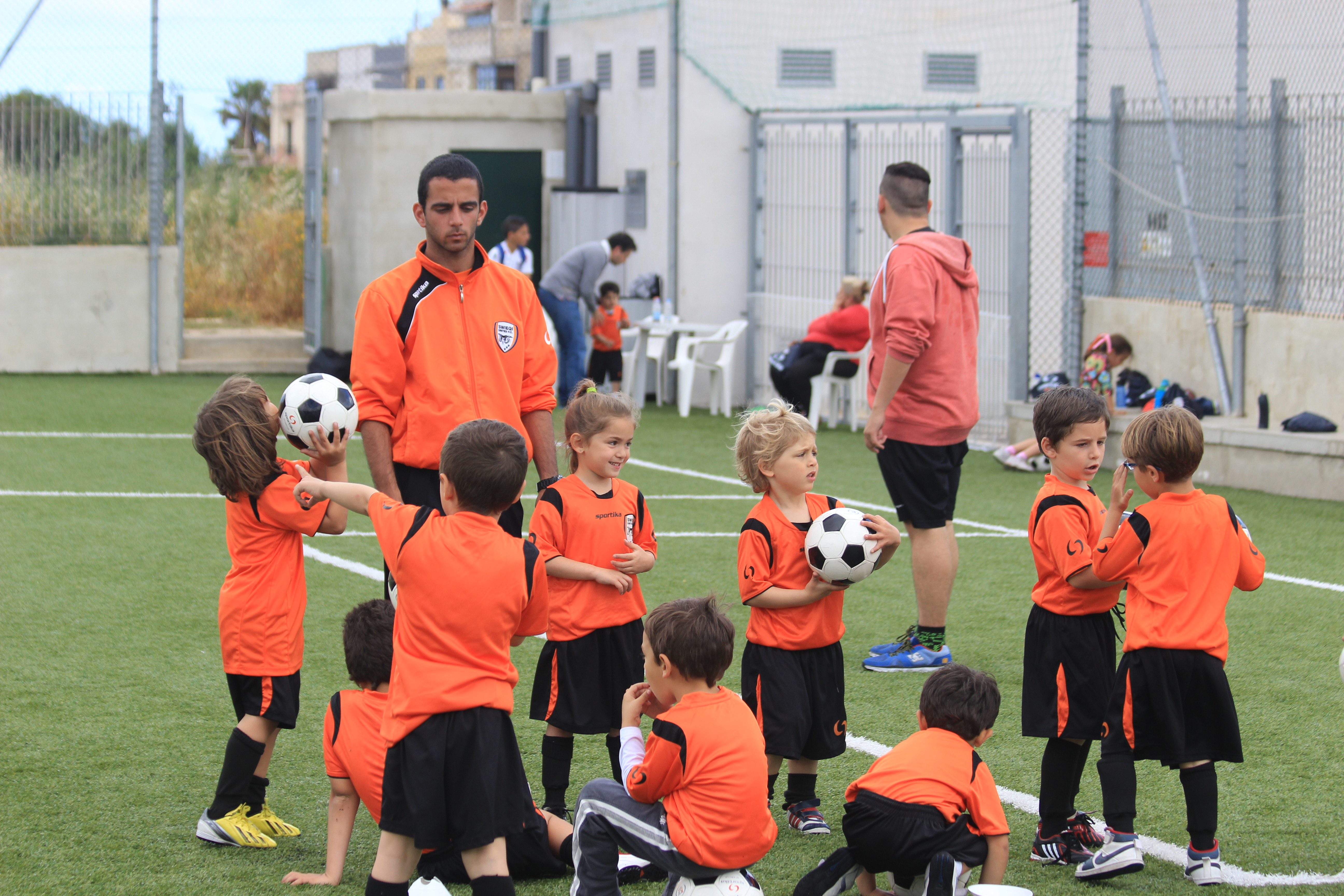 Swieqi United Academy in action